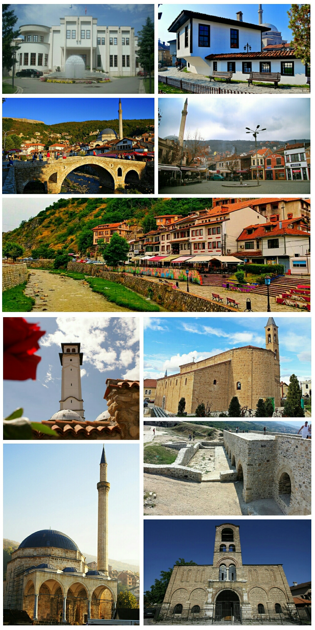 Prizren- photomontage (City Hall, Prizren League Building, Old stone bridge, Shadervan Square, Old town, Prizren Clock Tower, Cathedral of Our Lady of Perpetual Succour, Prizren Fortress, Sinan Pasha Mosque, Serbian Orthodox church Our Lady of Ljeviš)